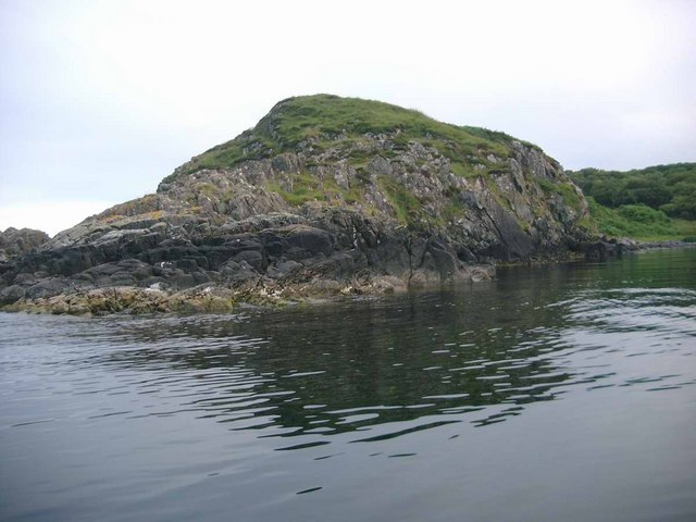 Trudernish Point.